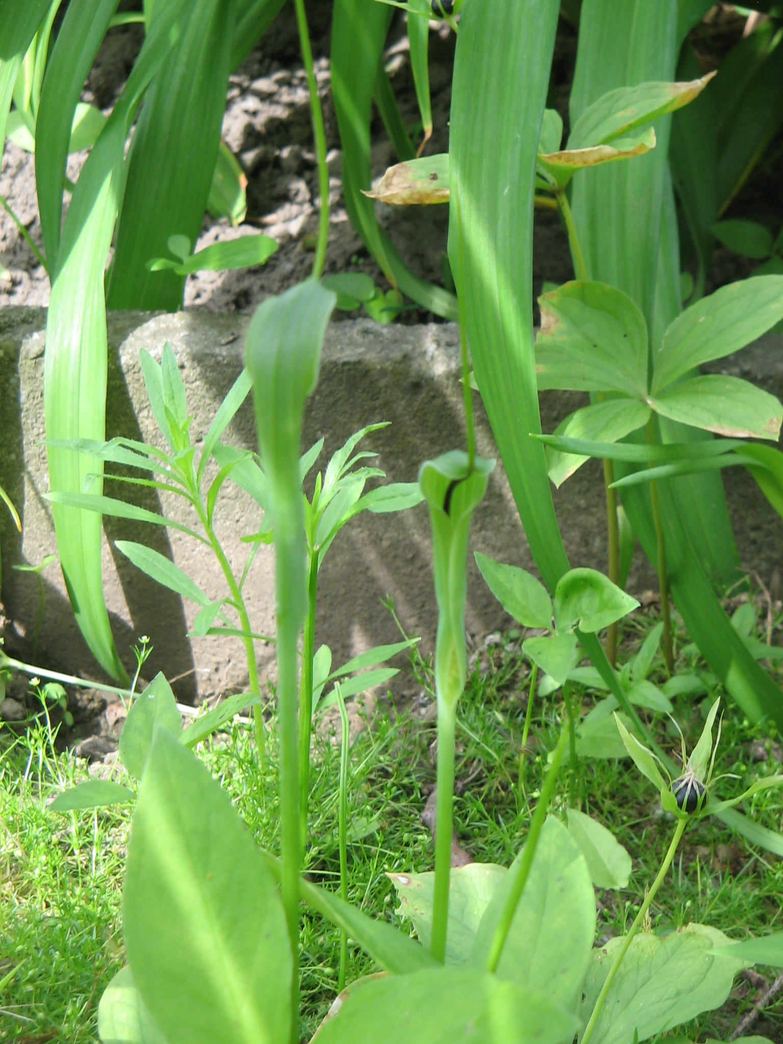 Pinellia ternata